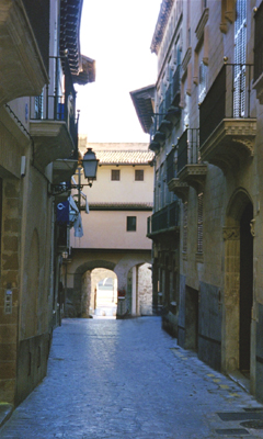 A lane in Palma